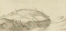 Shamakhi, Azerbaijan.